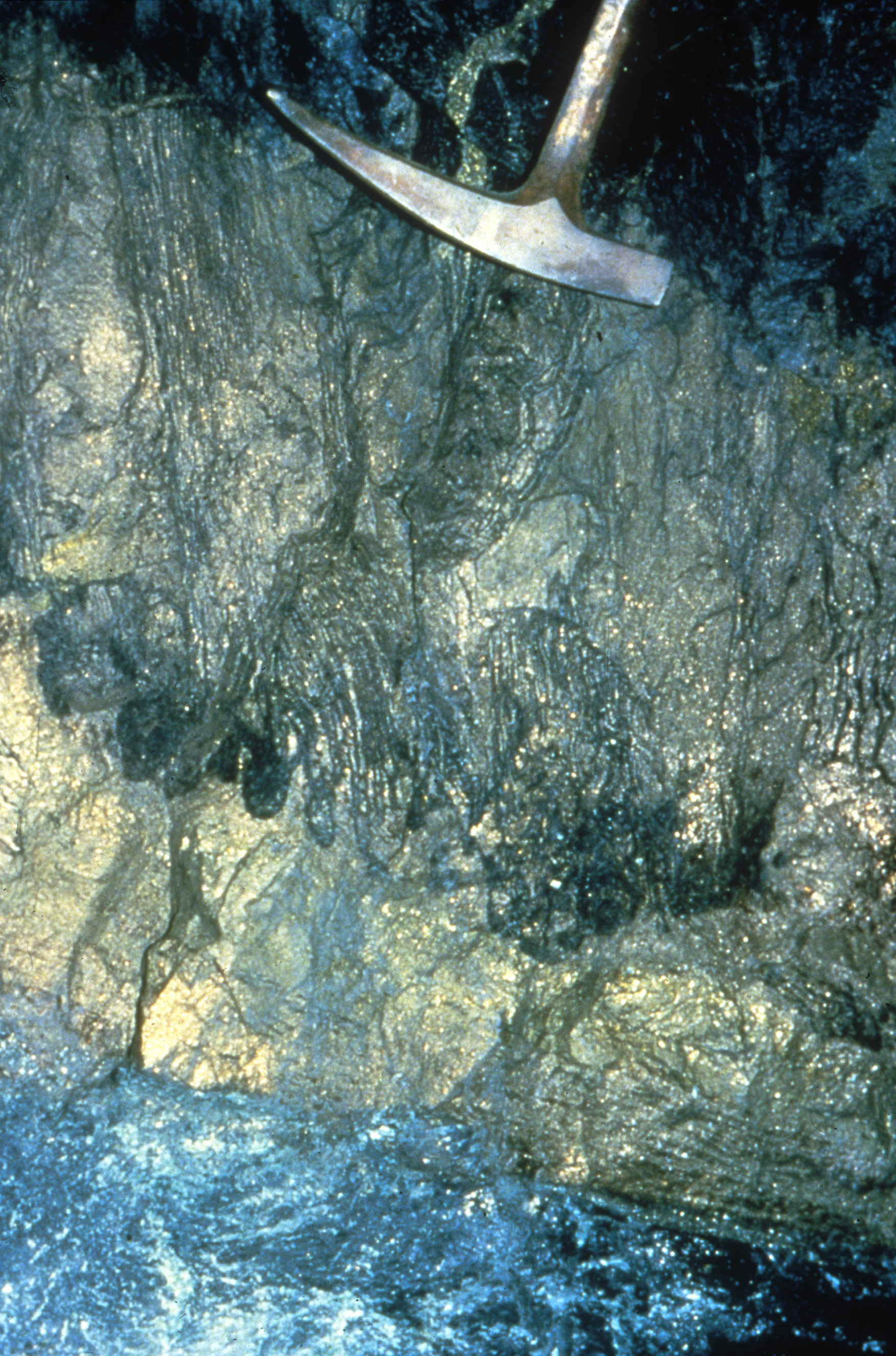 Spinifex textured nickel-sulphide ore, underground Lunnon Shoot, Kambalda, Western Australia. Photo credit: R. Hill